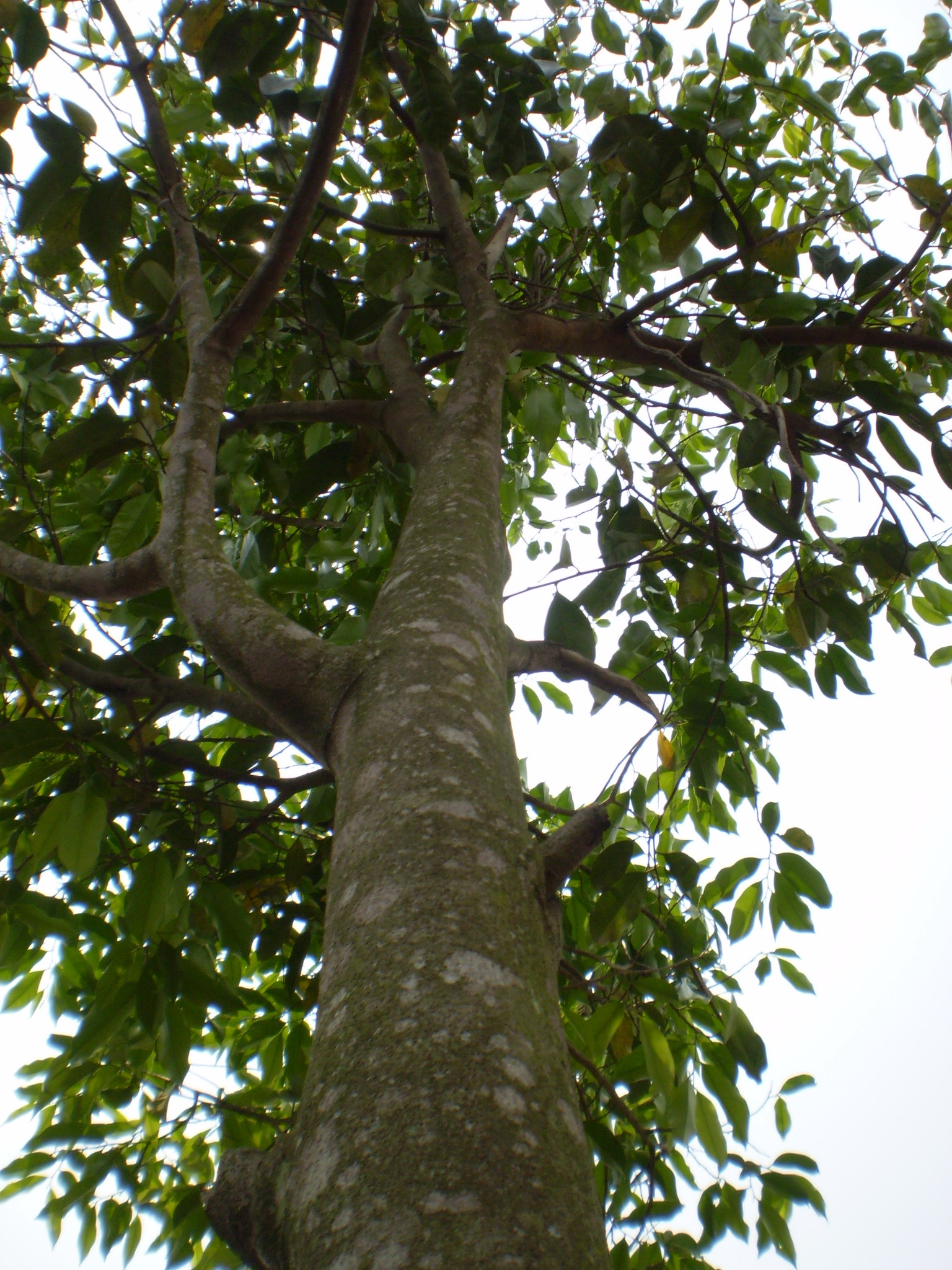 Aquilaria